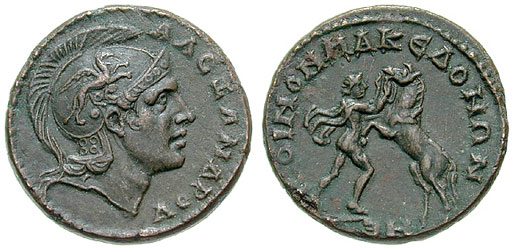 Bronze coin from Macedonia, minted under the Roman emperor Severus Alexander (222-235). Obverse : head of Alexander the Great wearing helmet. Reverse : young Alexander taming Bucephalos.